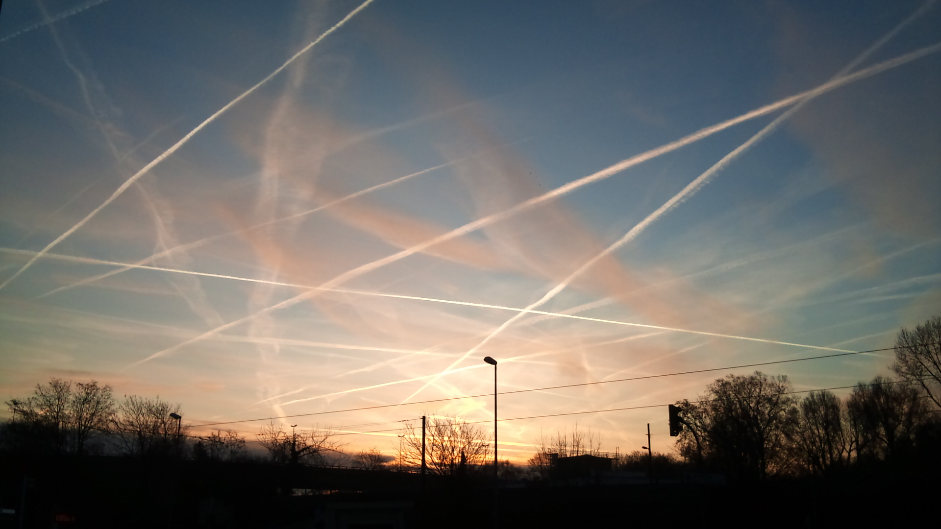 Contrails near Frankfurt, Germany